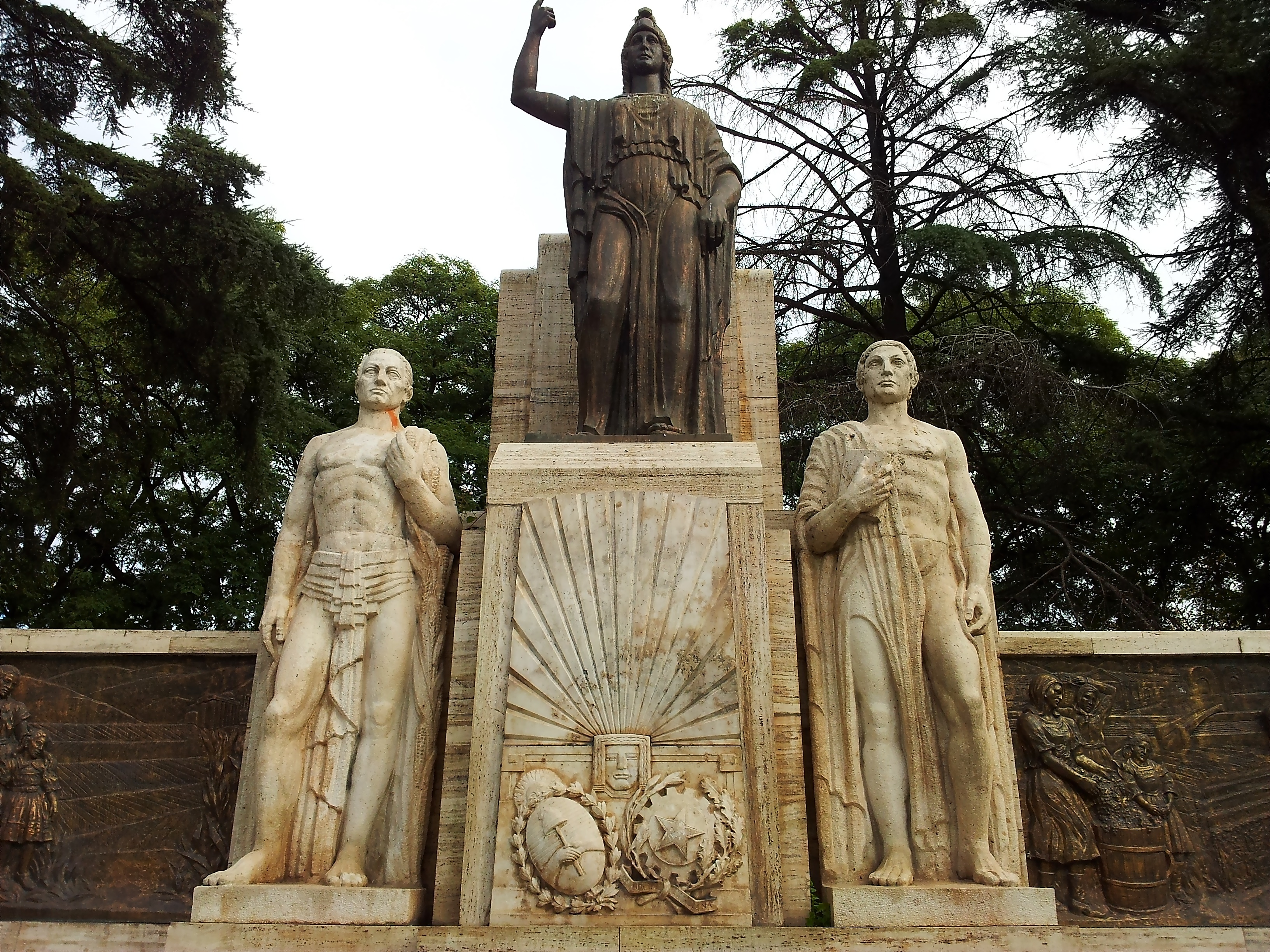 This monument recognises the contribution made to the development of the culture and economy of Mendoza by Italian immigrants.